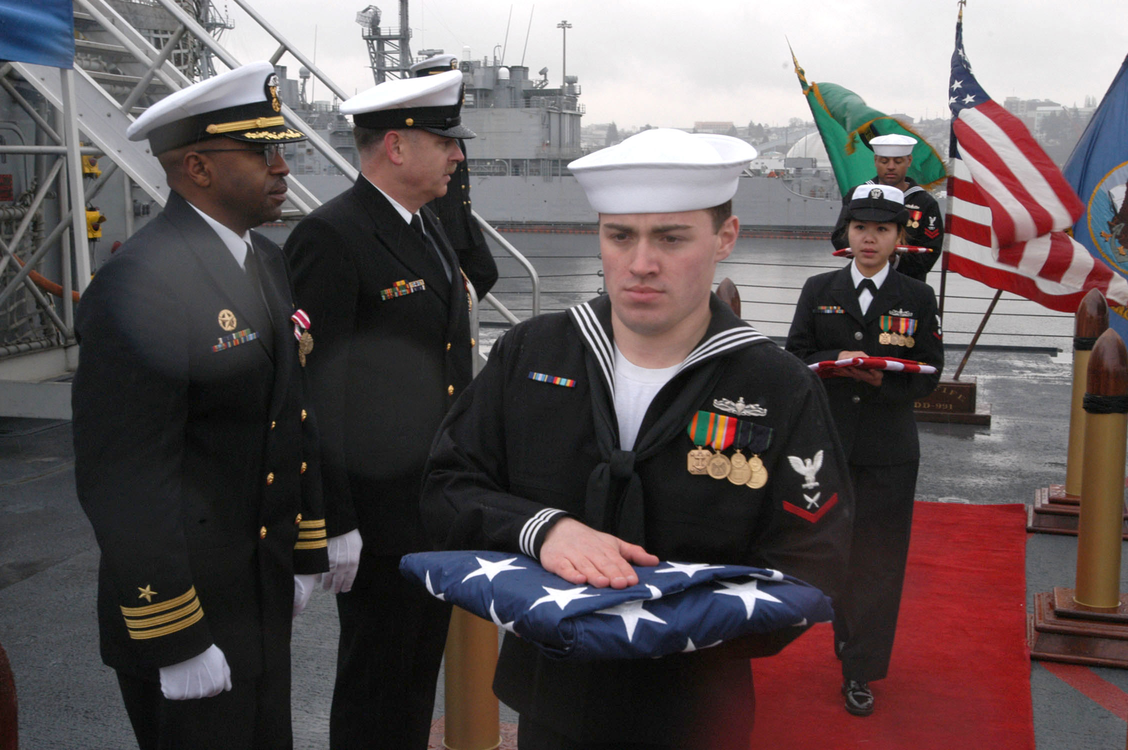 030228-N-6477M-091 Naval Station Everett, Washington. (Feb. 28, 2003) -- Commander Fernandez L. Ponds (left), commanding officer of the Spruance-class destroyer USS Fife (DD 991), and the ship’s command master chief Herbert L. Gregory stand by as members of the Fife’s crew, (foreground to background) YN3(SW) Sean A. Girvan, PN3(SW) Chau H. Nguyen and FC2(SW) Andre D. Cleveland, parade the ship's flags ashore, during her decommissioning ceremony.